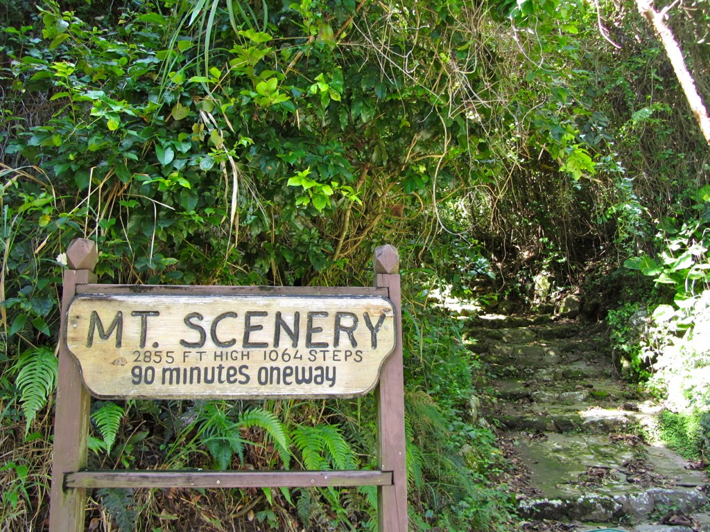 Mount Scenery Hiking Trail Beginning